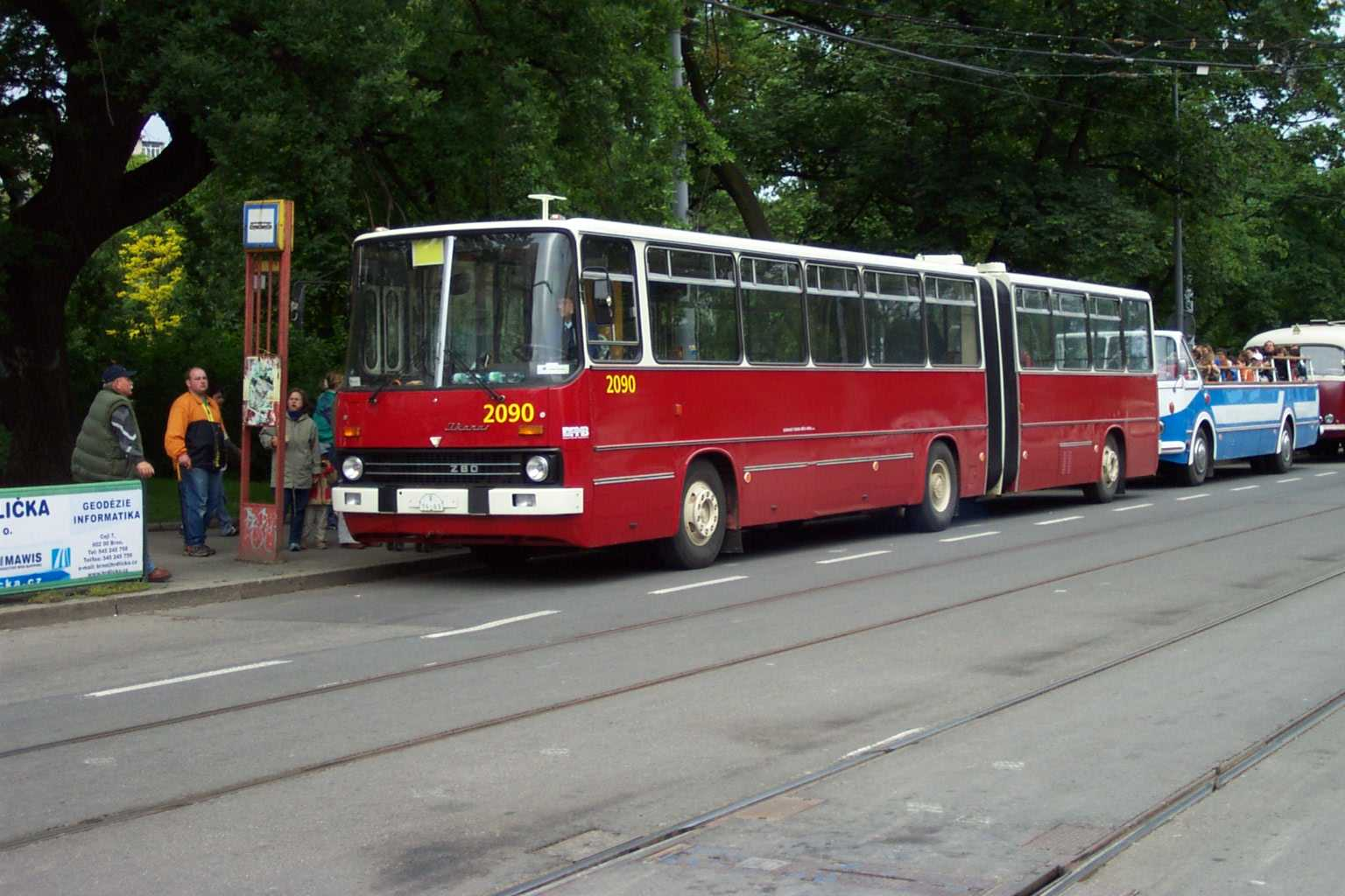 Ikarus 280 bus (historical) in Brno, South Moravian Region, Czech Republichelp